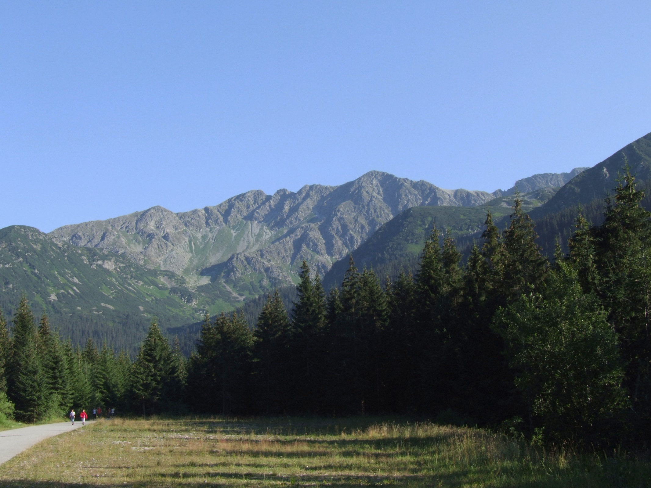 Roháčska Dolina (West Tatra Mountains), pl. Dolina Rohacka